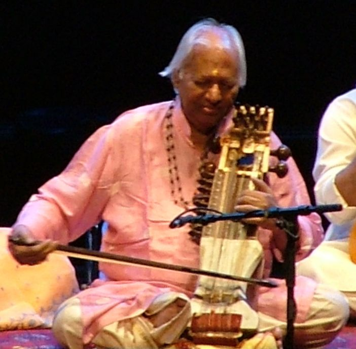 Ram Narayan plays in the Royal Albert Hall for Indian Voices Day for BBC's The Proms